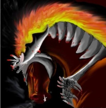 A Nightmare horse